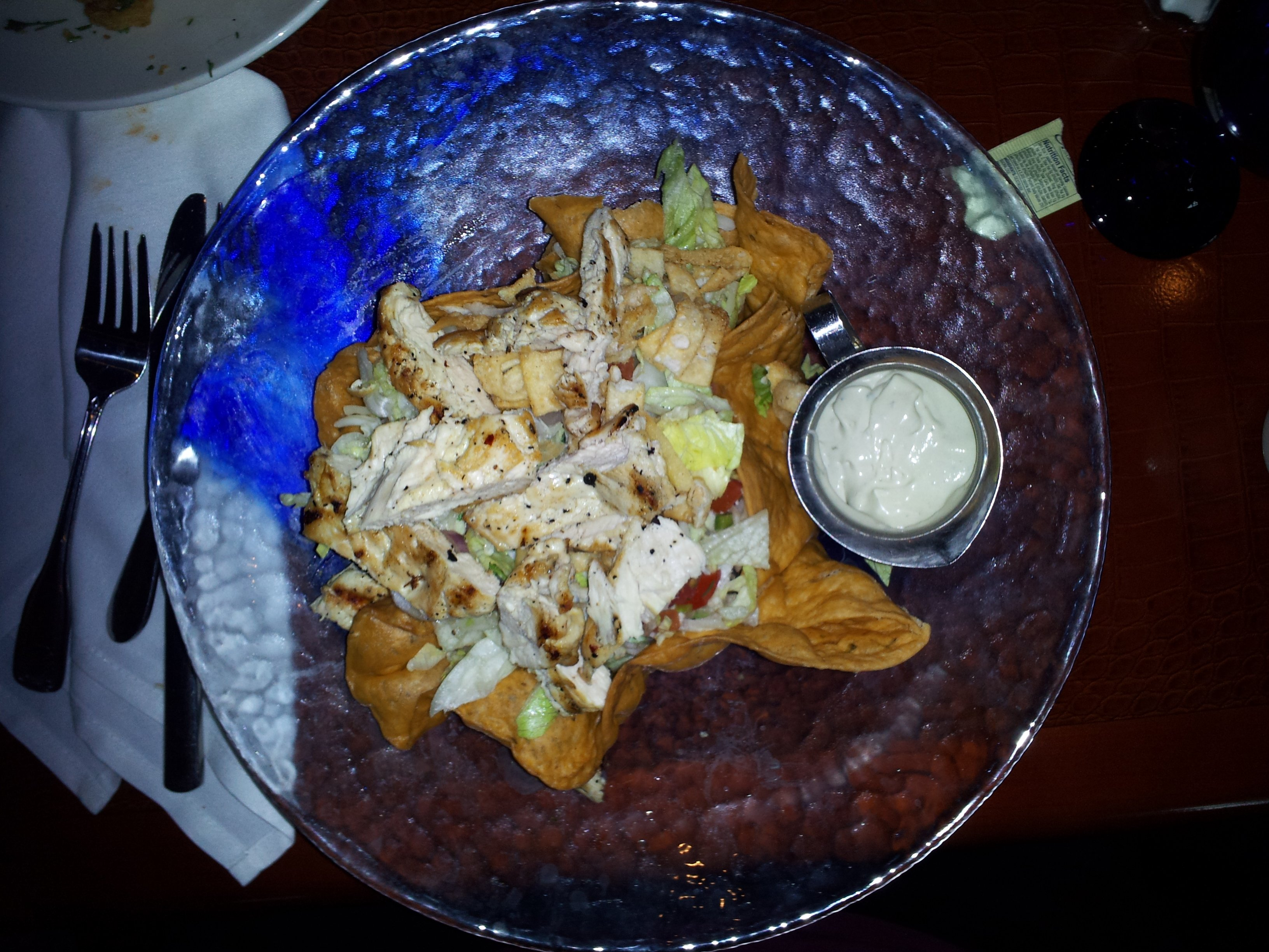 Taco salad at McLoone's Pier House at National Harbor in Prince George's County, Maryland.